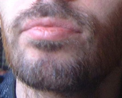 Based upon the PD-image Image:Mats Halldin oct2005.JPG